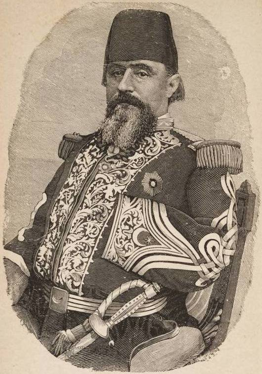 William W. Loring as a pasha in Egyptian service. This illustration appeared in A Confederate Soldier in Egypt by William W. Loring, published in 1884.